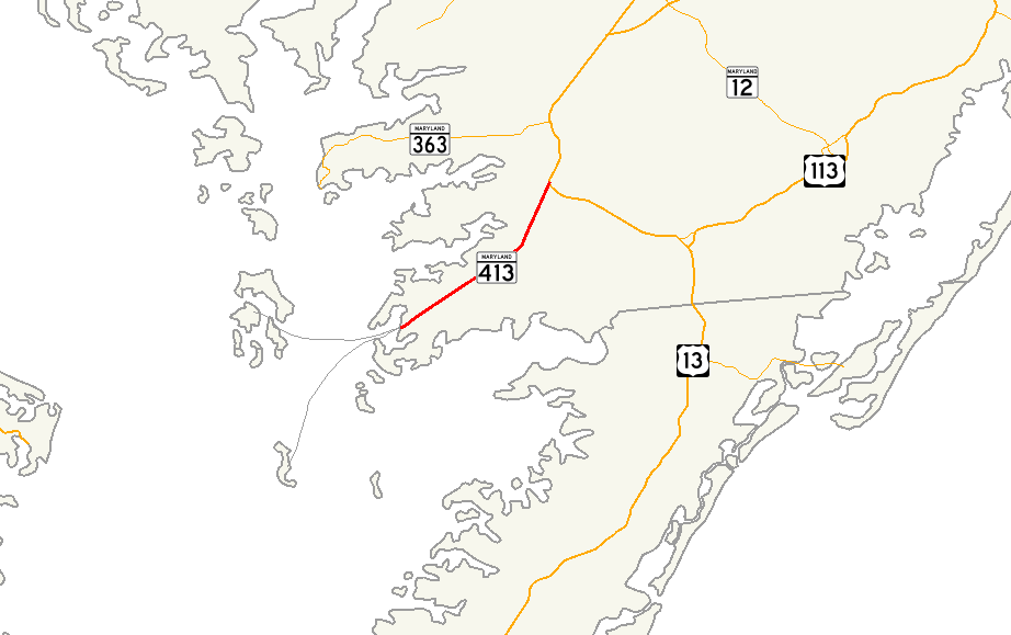 Map of Maryland Route 413